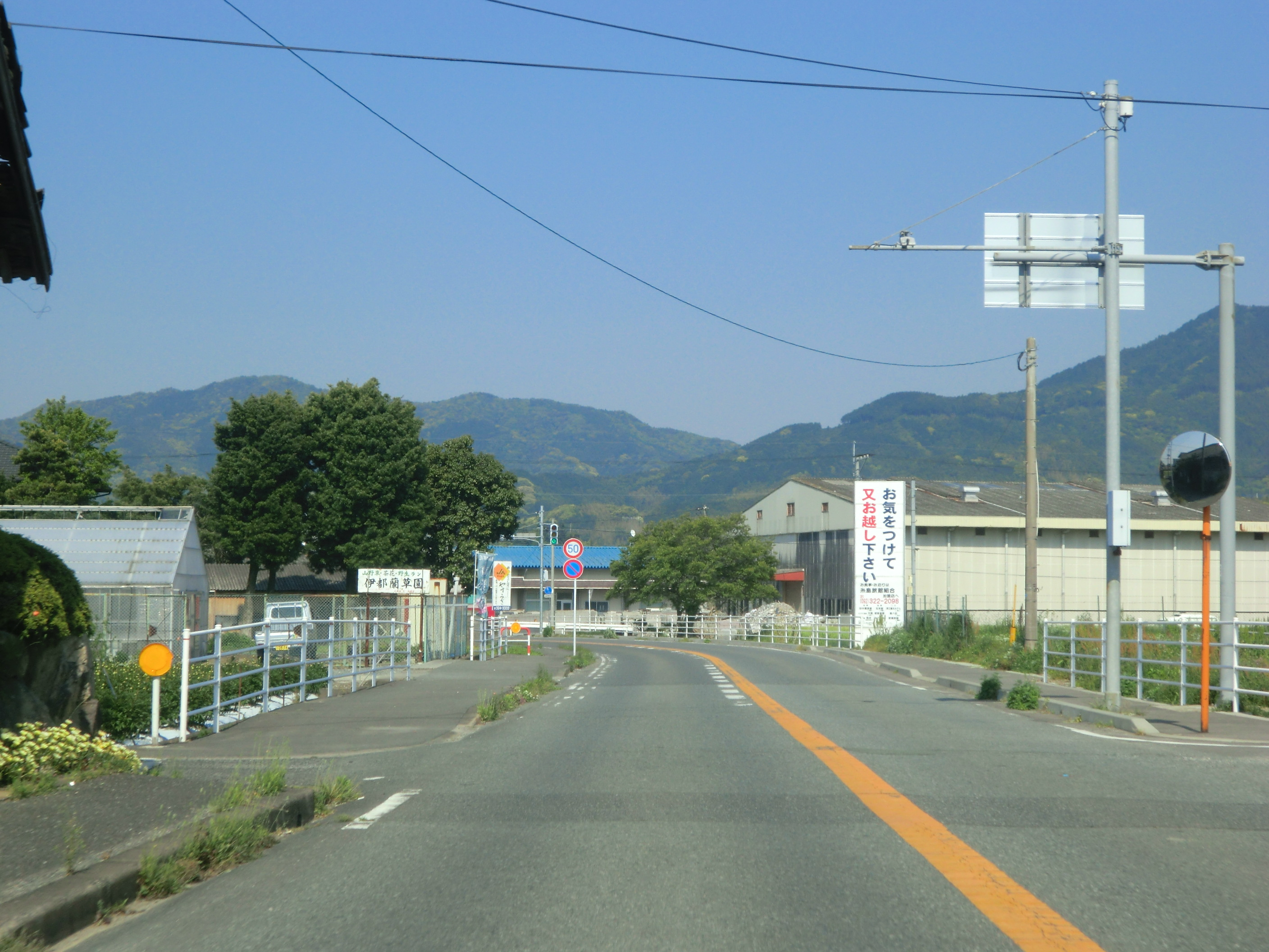 Fukuoka Prefectural Road No.49 running in Itoshima,Fukuoka,Japan.